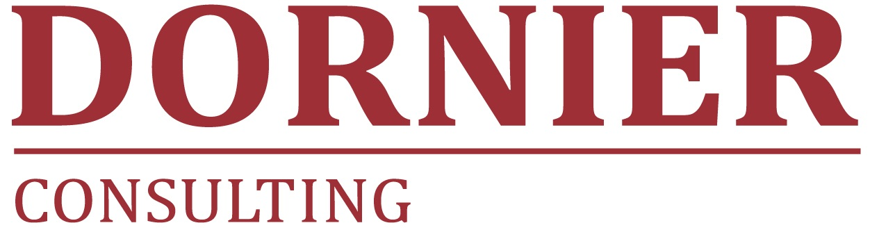 Logo Dornier Consulting